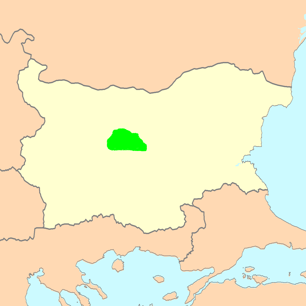 Middle Stara Planina Sheep area of distribution